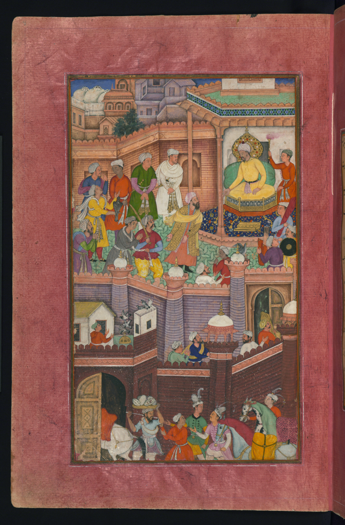 Illustrations from the Manuscript of Baburnama (Memoirs of Babur) - Late 16th Century Bāburnāma is the memoirs of Ẓahīr ud-Dīn Muḥammad Bābur (1483-1530), founder of the Mughal Empire and a great-great-great-grandson of Timur. It is an autobiographical work, originally written in the Chagatai language, known to Babur as "Turki" (meaning Turkic), the spoken language of the Andijan-Timurids. Because of Babur's cultural origin, his prose is highly Persianized in its sentence structure, morphology, and vocabulary,and also contains many phrases and smaller poems in Persian. During Emperor Akbar's reign, the work was completely translated to Persian by a Mughal courtier, Abdul Rahīm, in AH (Hijri) 998 (1589-90). These Paintings, being a fragment of a dispersed copy, was executed most probably in the late 10th AH /16th CE century. It contains 30 mostly full-page miniatures in fine Mughal style by at least two different artists. Another major fragment of this work (57 folios) is in the State Museum of Eastern Cultures, Moscow.